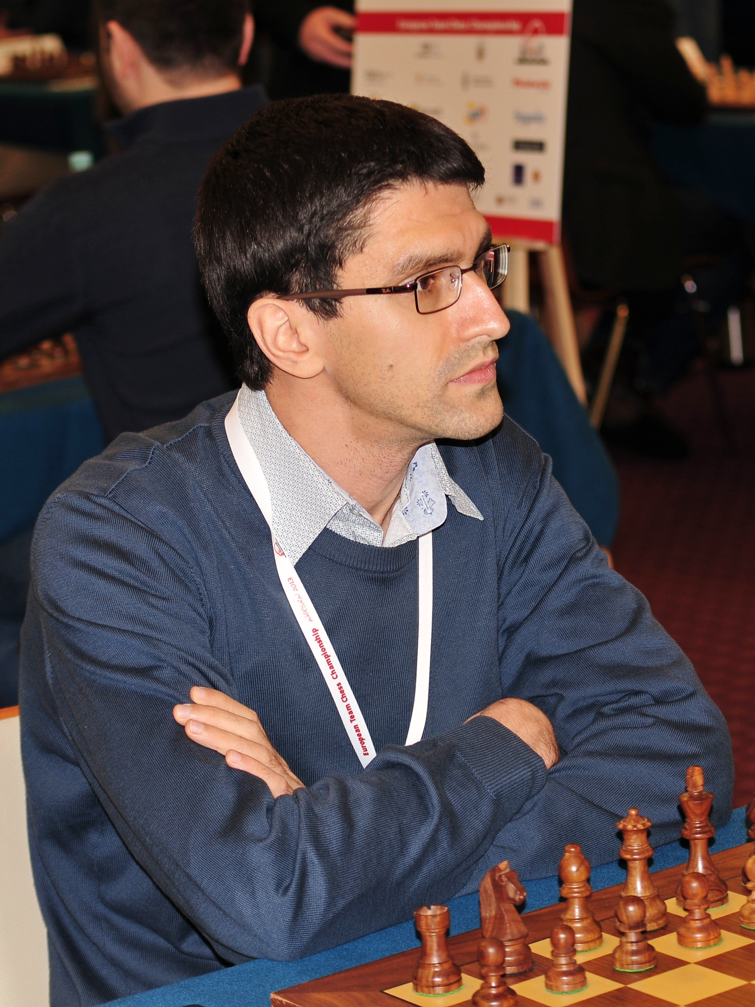 GM Mircea-Emilian Pârligras, European Chess Team Championship Warsaw 2013